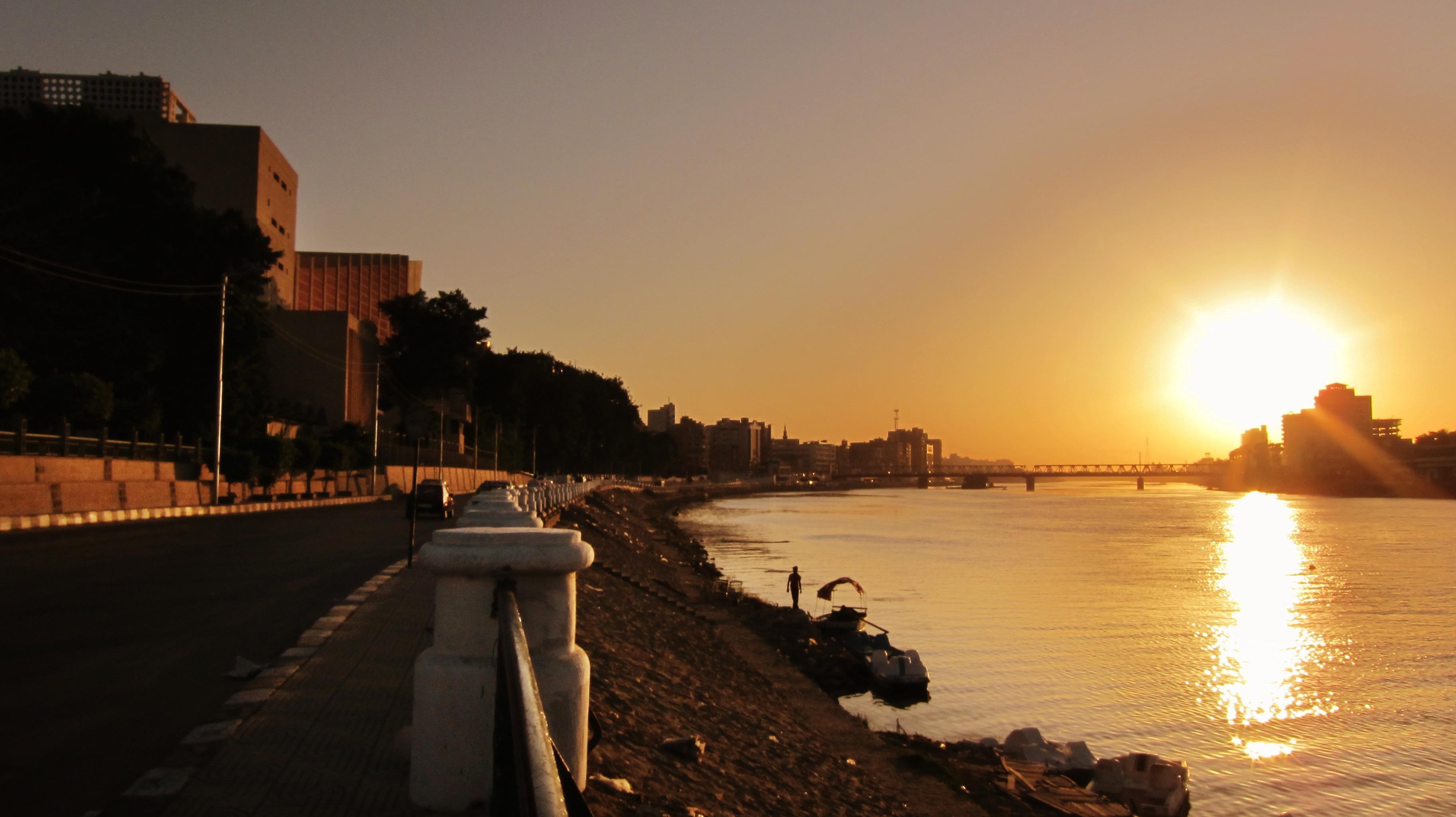 El Mansoura (Arabic: المنصورة, al-manṣūrah) is a city in Egypt, with a population of 420,000. It is the capital of the Dakahlia Governorate. Mansoura lies on the east bank of the Damietta branch of the Nile, in the Delta region. Mansoura is about 120 km northeast of Cairo. Across from the city, on the opposite bank of the Nile, is the town of Talkha. Mansoura and Talkha together form a metropolitan city. More.